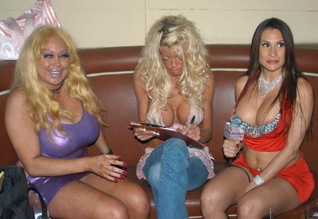 Pamela Peaks, Jordan Blue, Sheila Marie at Forbidden City party on March 31, 2007